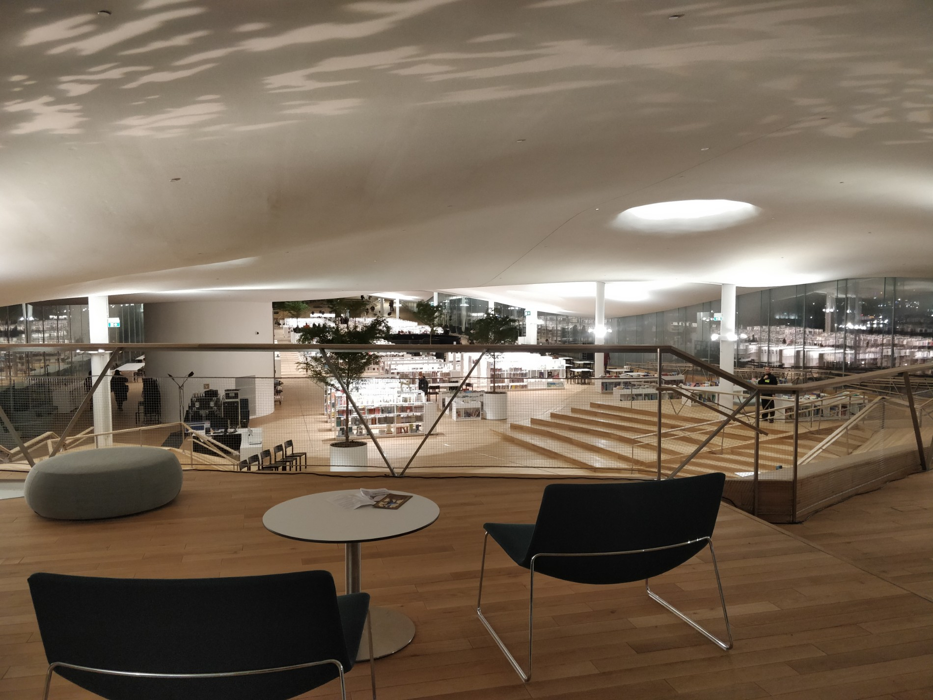 The third floor of Oodi seen from the highest corner